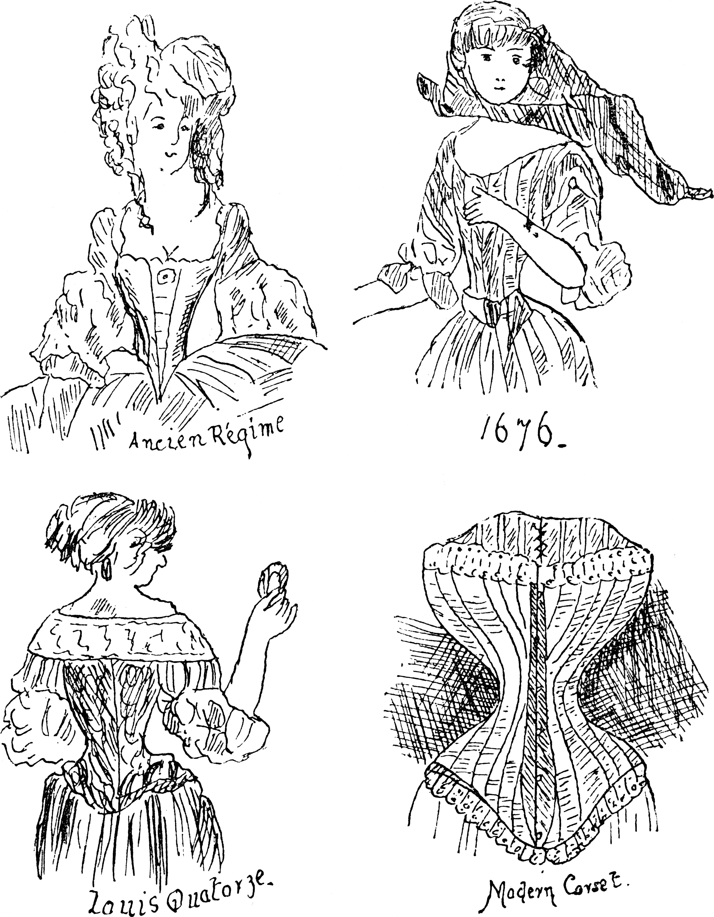 This is a fantasy or a fiction about corsets and pair of stays from 1889